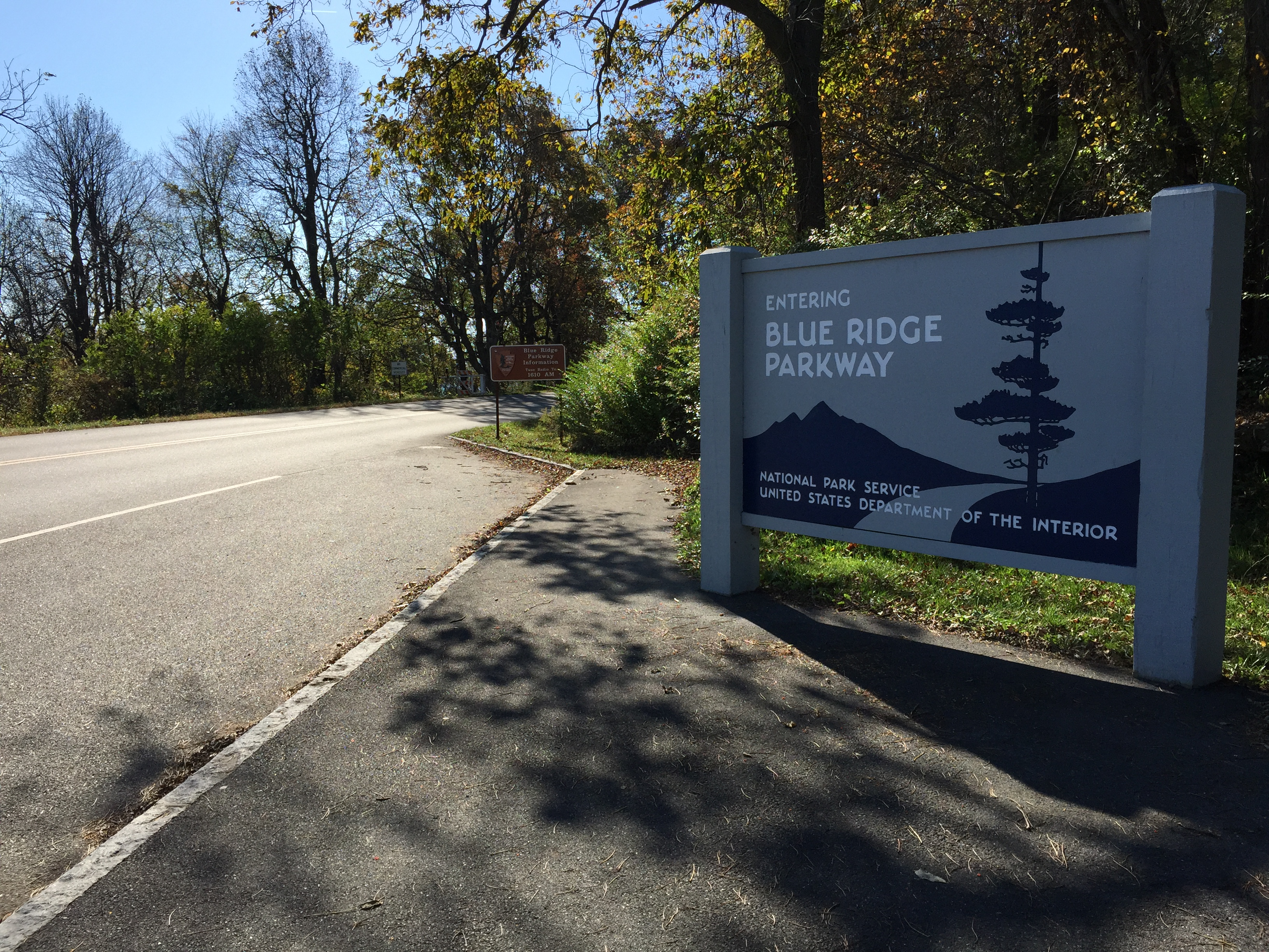 Sign at the north end of the southbound Blue Ridge Parkway at Rockfish Gap in Nelson County, Virginia